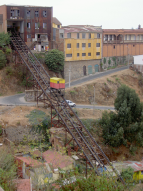 Funicular ("Ascensor" Villaseca) in Valparaíso, Chile